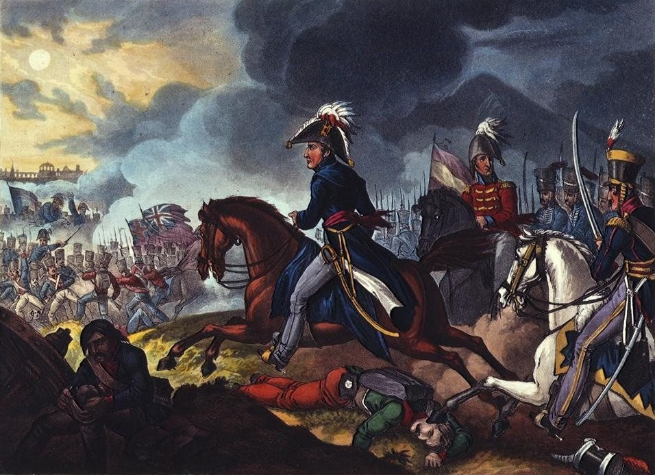 Wellington at the battle of Salamanca